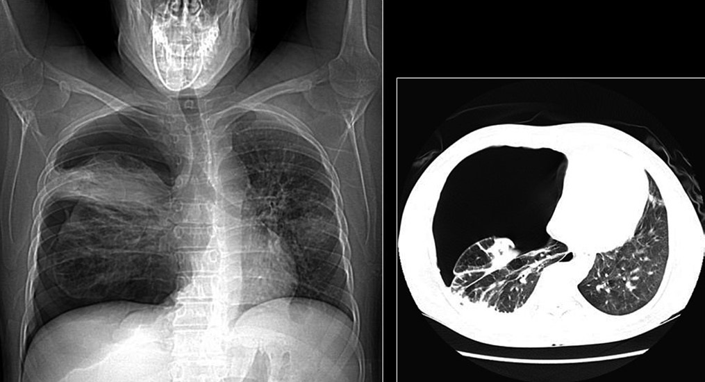 Pneumocystis pneumonia: Chest X-ray and computed tomography show a left-sided ground-glass pattern and a right-sided large tension pneumothorax. Note the mediastinal shift